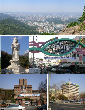 Montage of various Daegu images